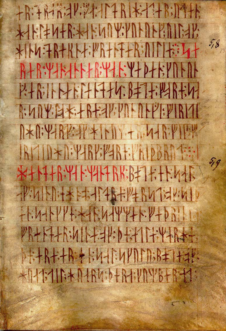 AM 28 8vo, known as Codex runicus, a vellum manuscript from c. 1300 containing one of the oldest and best preserved texts of the Scanian law (Skånske lov), written entirely in runes.